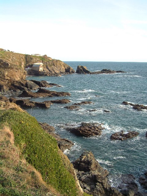 Lizard Point and lifeboat station. Looking east from the cliff path towards England's southernmost point.